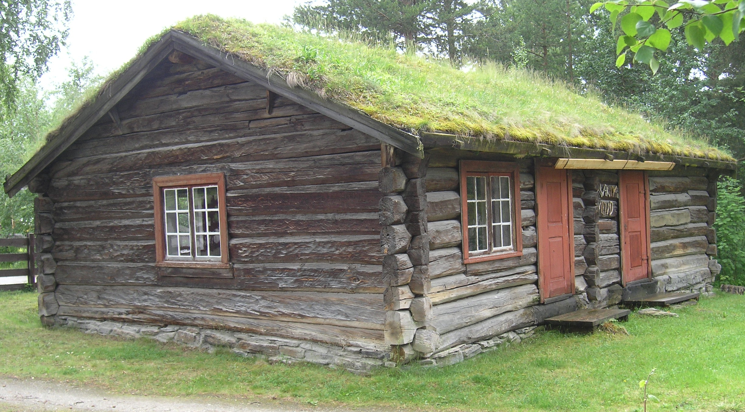 Fedraheimstua, Tynset bygdemuseum